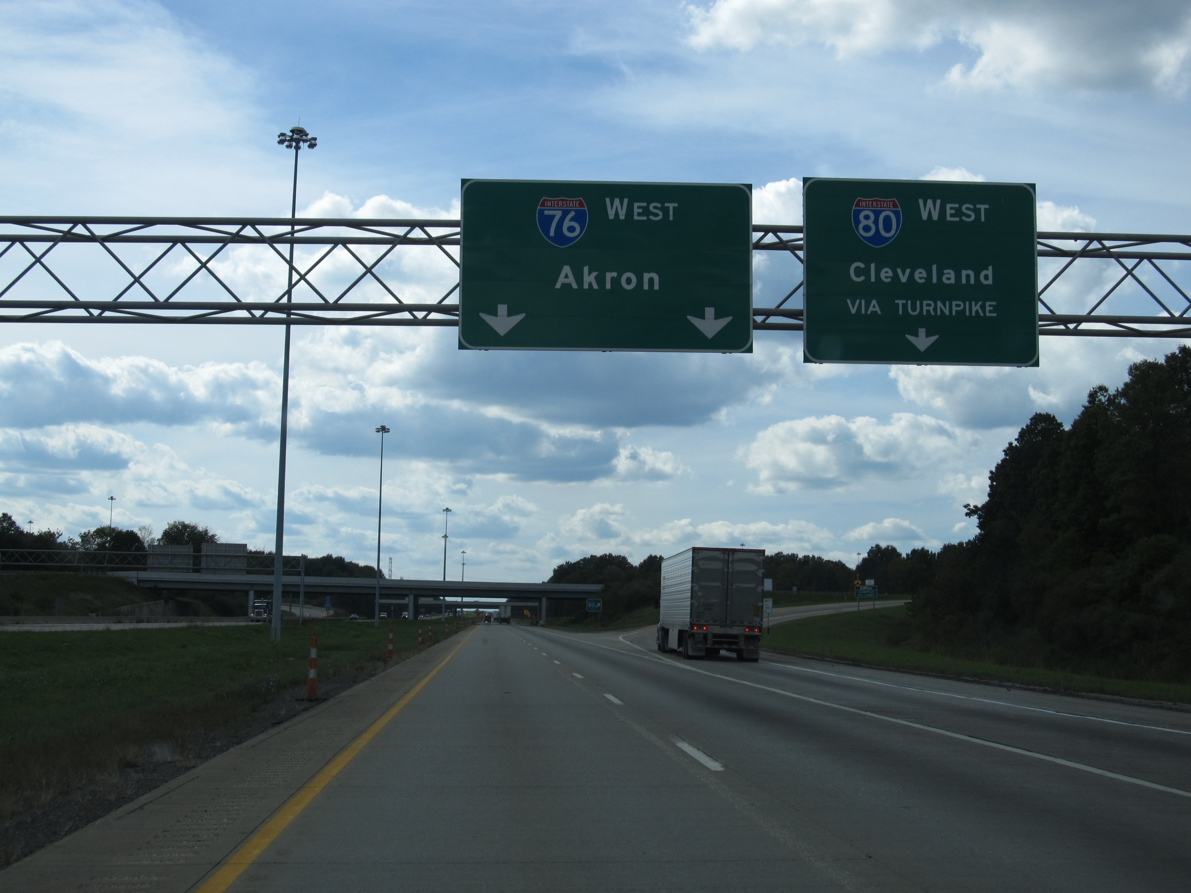 Seguir Junction of I-80 and I-76 Near Youngstown, Ohio Interstate 76 (I-76) is an Interstate Highway in the United States, running 435 miles (700 km) from an interchange with Interstate 71 west of Akron, Ohio, east to Interstate 295 near Camden, New Jersey. Just west of Youngstown, I-76 joins the Ohio Turnpike and heads around the south side of Youngstown. In Pennsylvania, I-76 runs across most of the state on the Pennsylvania Turnpike, passing near Pittsburgh and Harrisburg before leaving the Turnpike to enter Philadelphia on the Schuylkill Expressway, crossing the Walt Whitman Bridge into New Jersey. After Interstate 76 reaches its eastern terminus, the freeway continues as Route 42 and the Atlantic City Expressway to Atlantic City.